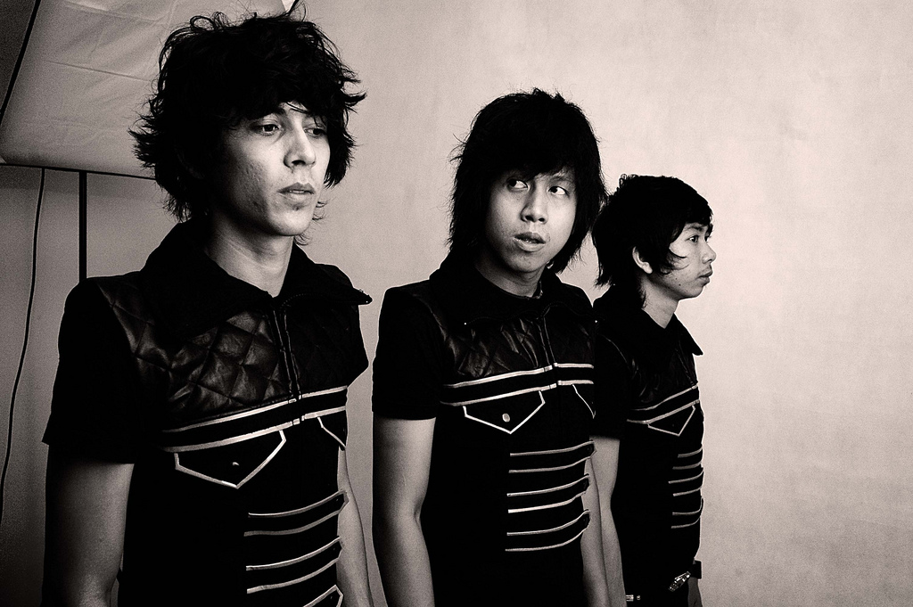 Bunkface Photoshoot Official Photog: Fad Manaf Studio: 84cubes Art Director: Abstrak Jingga